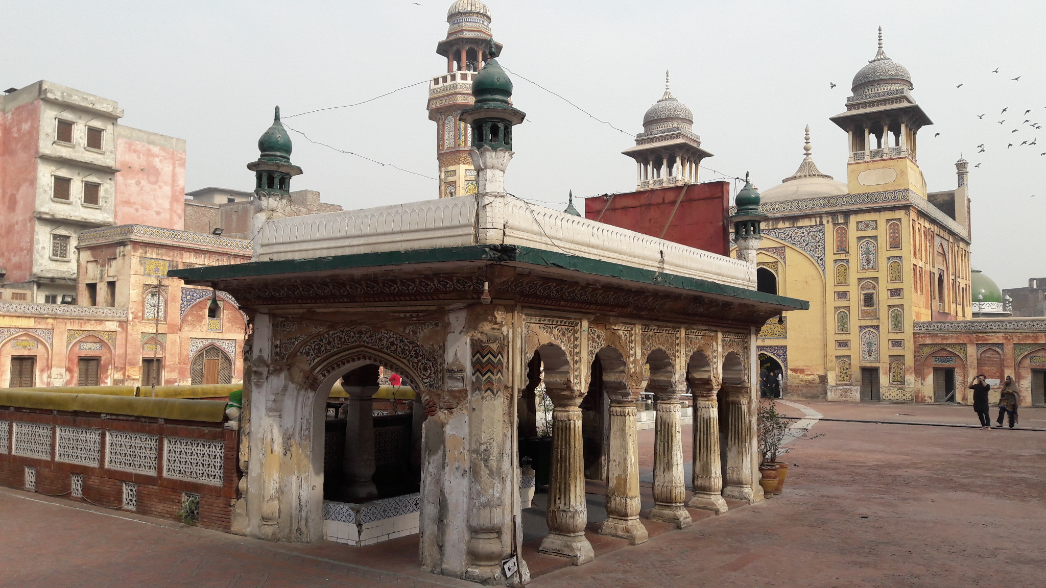 Syed Muhammad Ishaq Gazruni's Tomb